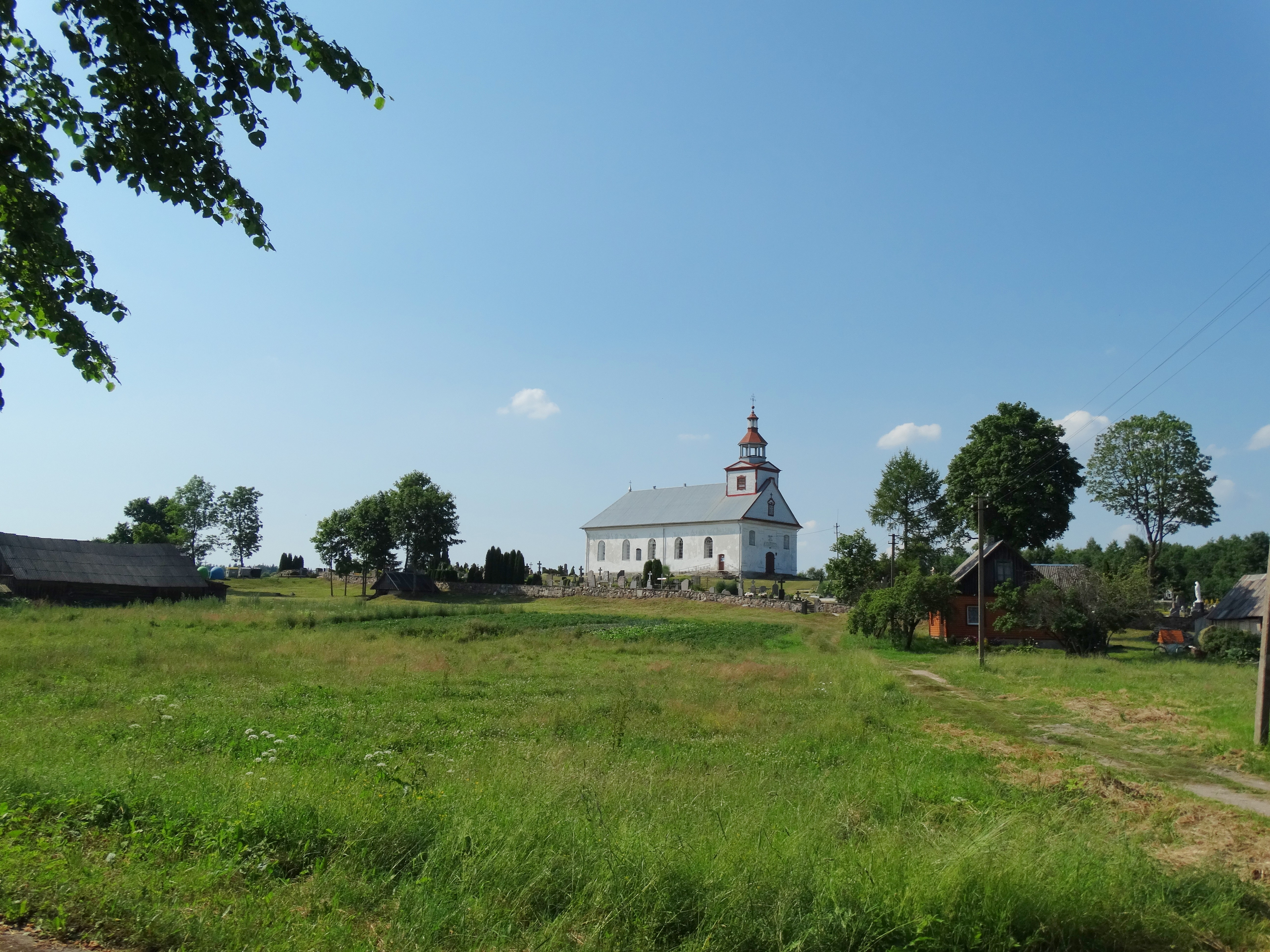 Church of St. Bartholomew in Nerimdaičiai, Telšiai district, Lithuania